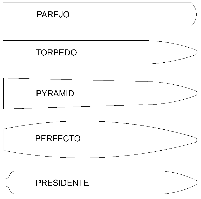 Taken by my at various different times The 5 most common cigar shapes (Parejo, Torpedo, Pyramid, Perfecto, Presidente), the culebras shape omited because it is not a very common cigar shape.